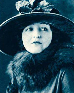 Publicity photo of June Elvidge from Stars of the Photoplay. June Elvidge first joined the World Film stock company after appearing two years at the Winter Garden, the second of which she spent as understudy to the leading lady, whose part she played on the road. She made her film debut in "The Lure of Woman." She has appeared in "The Dancer of the Nile" and "The Eleventh Hour." Miss Elvinge was born in St. Paul, Minnesota, on June 30, 1893, of English-Irish parentage. She is of medium complexion, brown hair and eyes, five feet, nine inches in height and weighs 135 pounds. Not married.